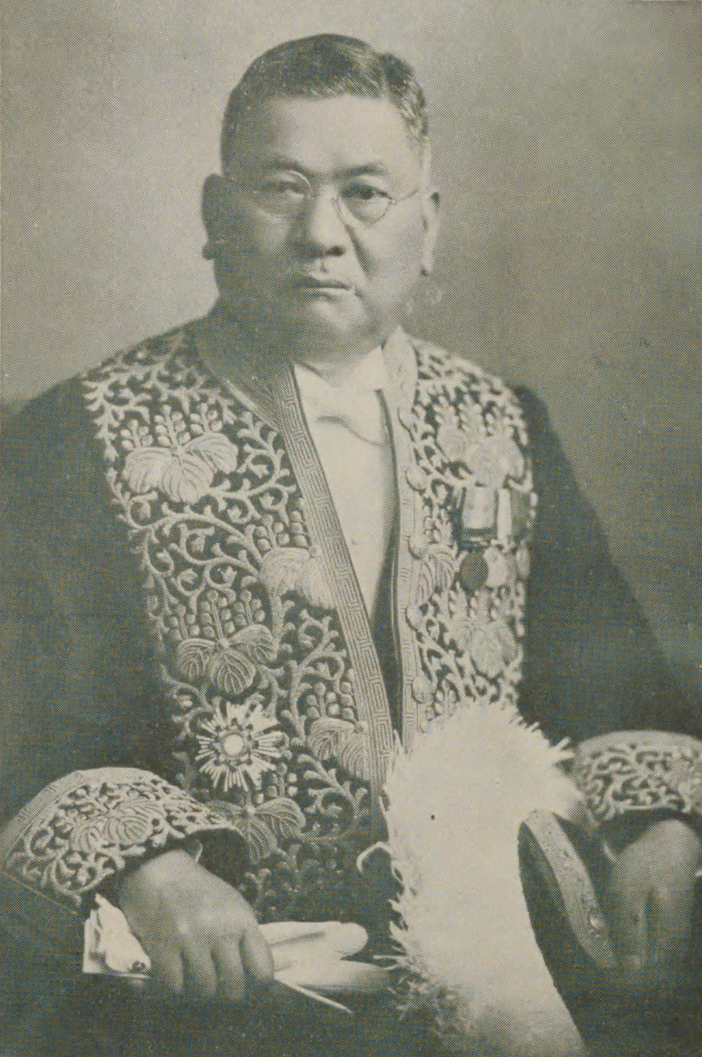 Portrait of Hara Shujiro (原脩次郎, 1871 – 1934)